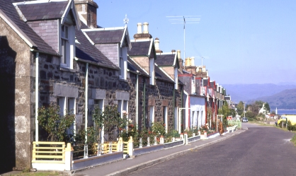 Lochcarron. This is the main street of the village of Lochcarron, almost on the shore of the loch.